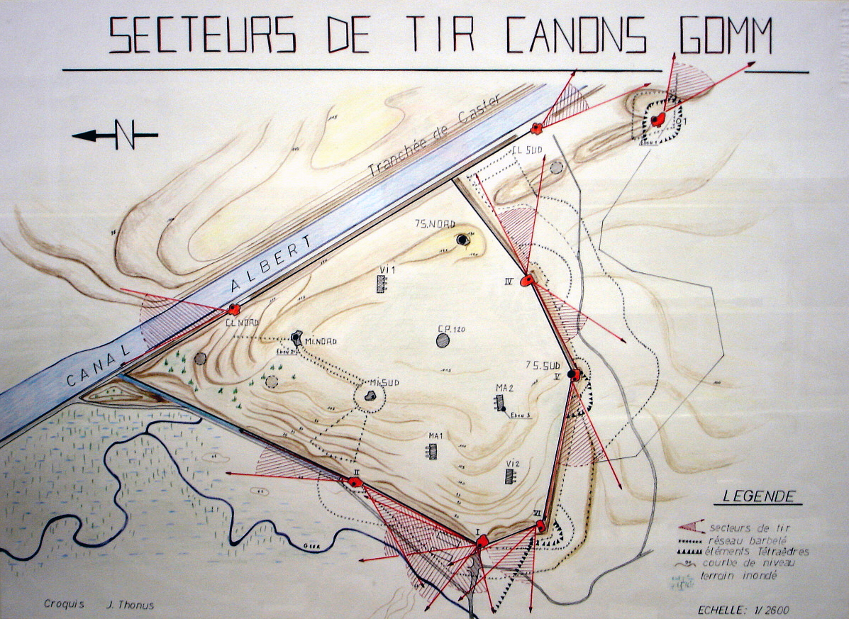 Fort Eben-Emael